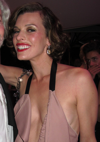 Milla Jovovich at the Cinema Against AIDS 2011.